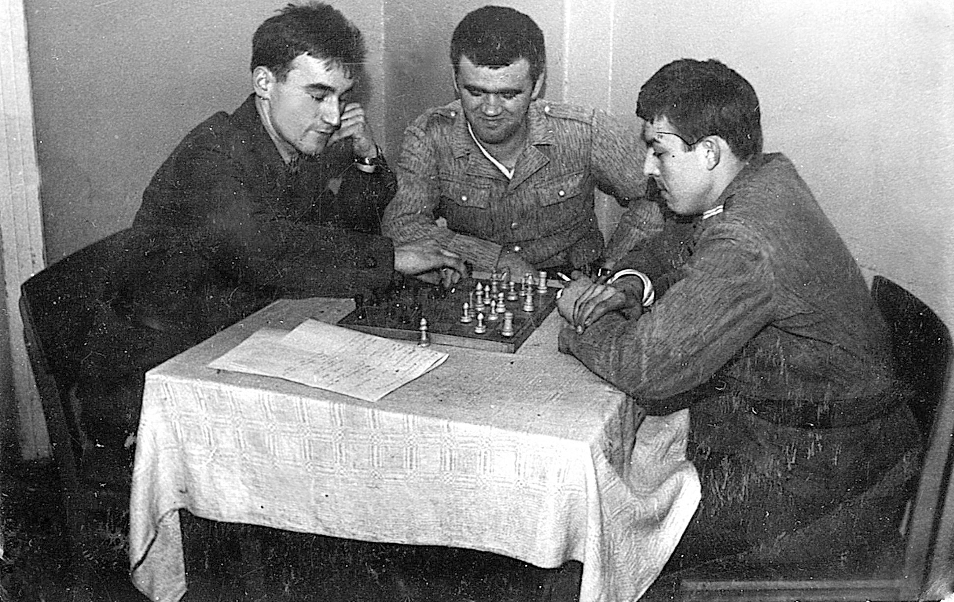 Border Protection Forces in Dźwirzyno